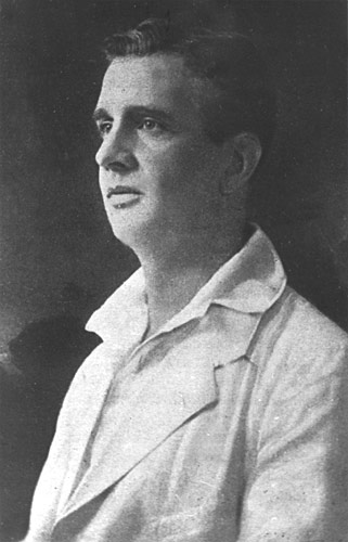 Hermann Friese, association football player (SC Germania, Football Club, São Paulo, Brazil), and referee